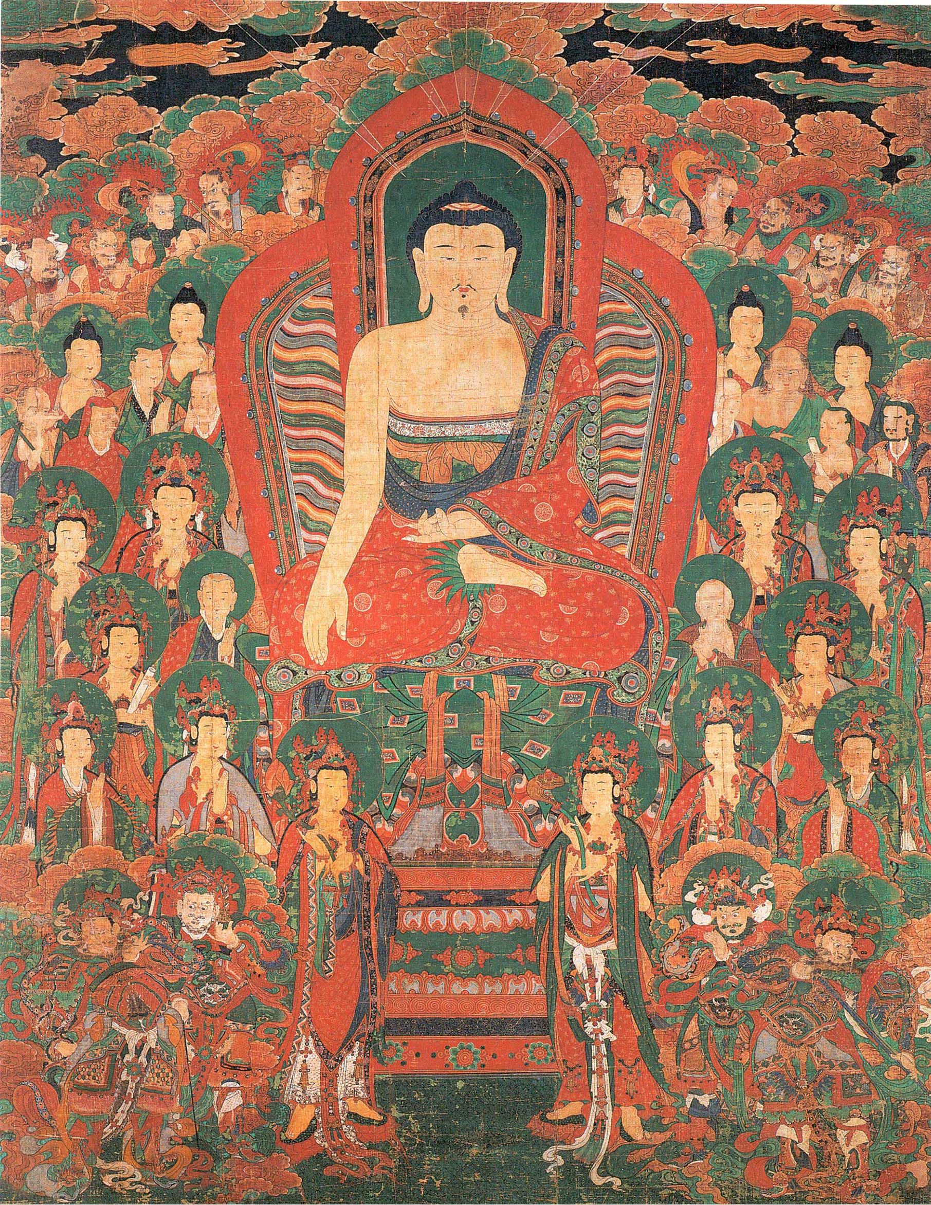 Buddhist Painting of Tongdosa Temple (The Vulture Peak Assembly), Treasure of Republic of Korea No. 1353